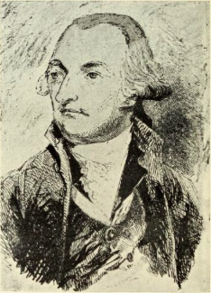 Edward Cornwallis, etching by John Giles Eccardt after portrait by Joshua Reynolds